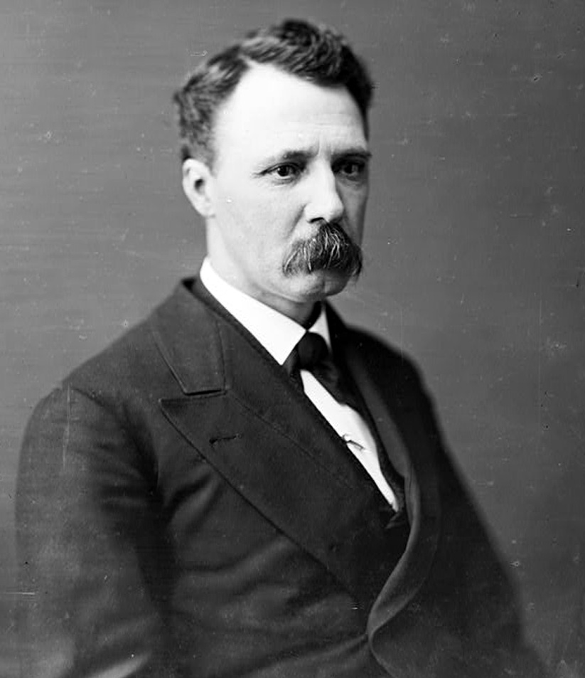 Charles Herbert Joyce, US Representative from Vermont